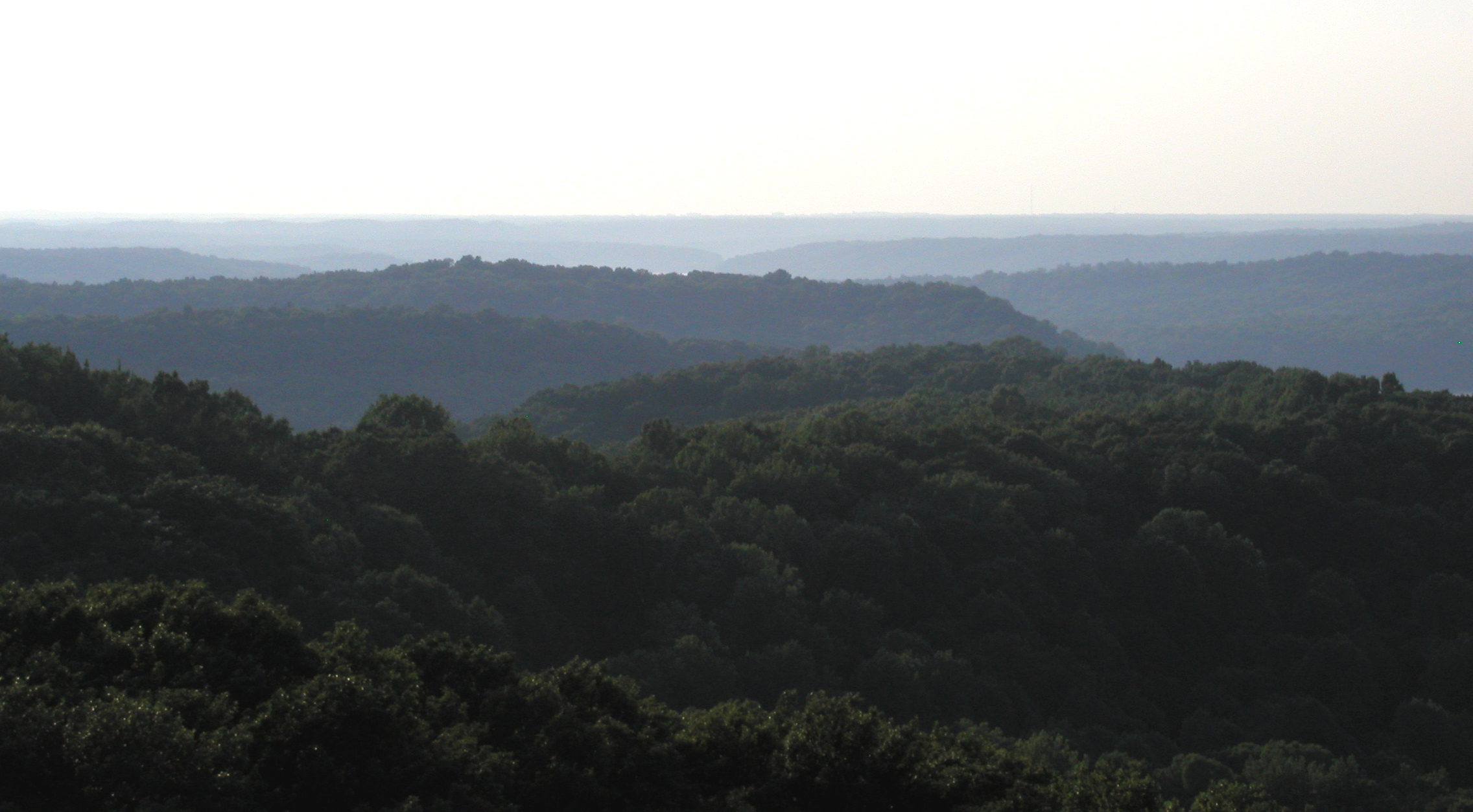 The Charles C. Deam Wilderness Area of Hoosier National Forest in Southern Indiana, viewed from the Hickory Ridge Fire Tower looking Northwest. Taller buildings in Bloomington, Indiana can barely be seen on the distant horizon. Though Indiana is often regarded as flat, this image shows the rolling hills in the area. Karst topography dominates, with deep ravines scattered throughout the wilderness area.